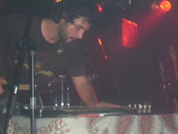 Dredg's lead singer Gavin Hayes playing the slide guitar during a concert at The Masquerade in Atlanta, GA.